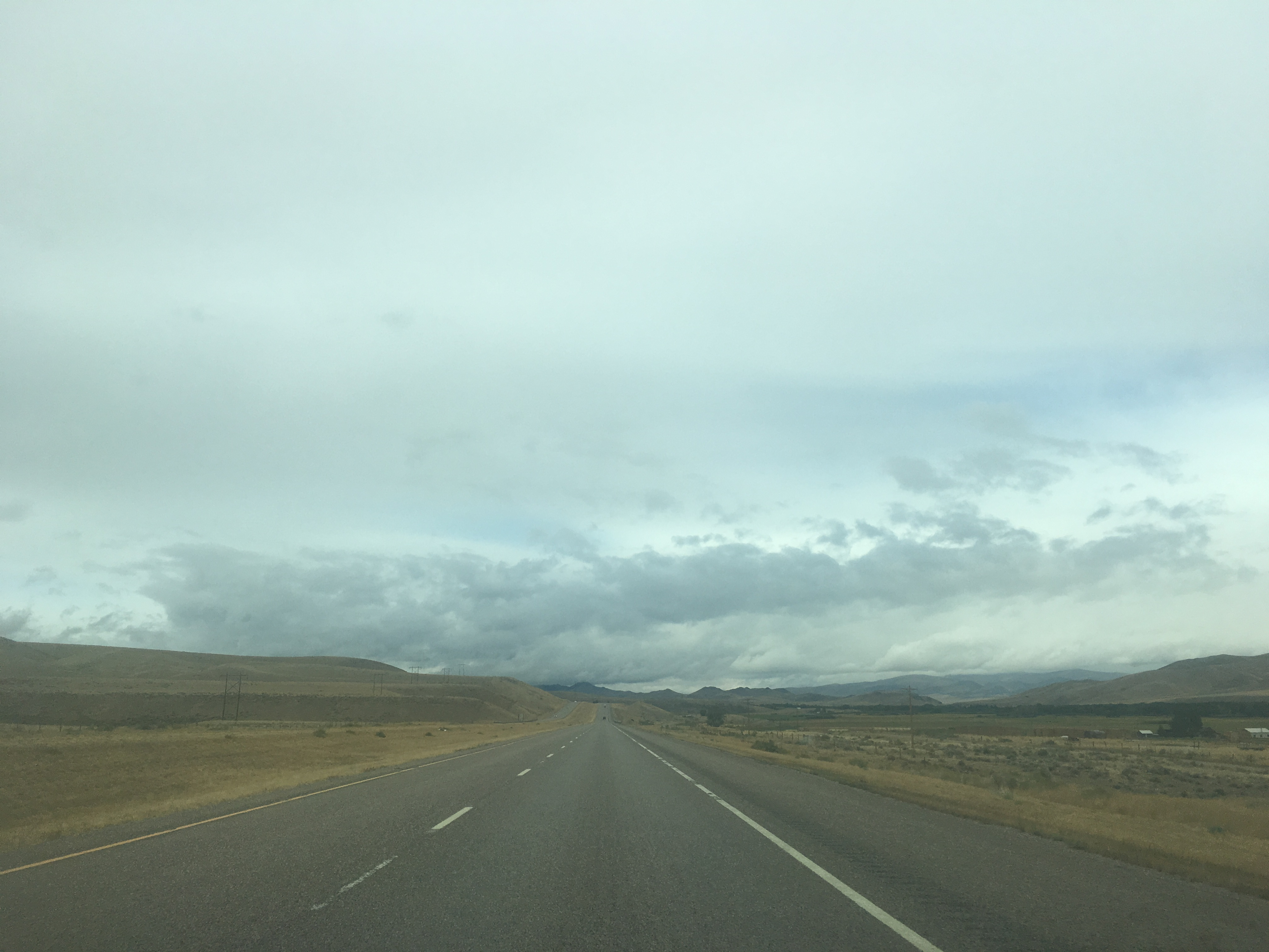 Interstate 15, 20 miles south of Dillon, Montana